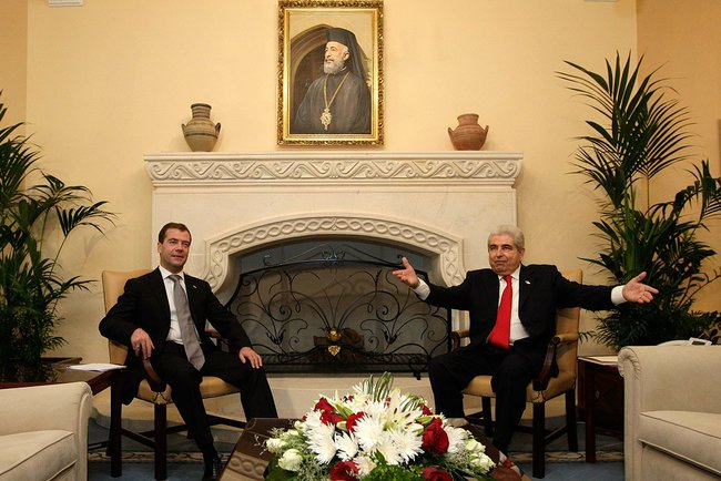 With President of the Republic of Cyprus Demetris Christofias.